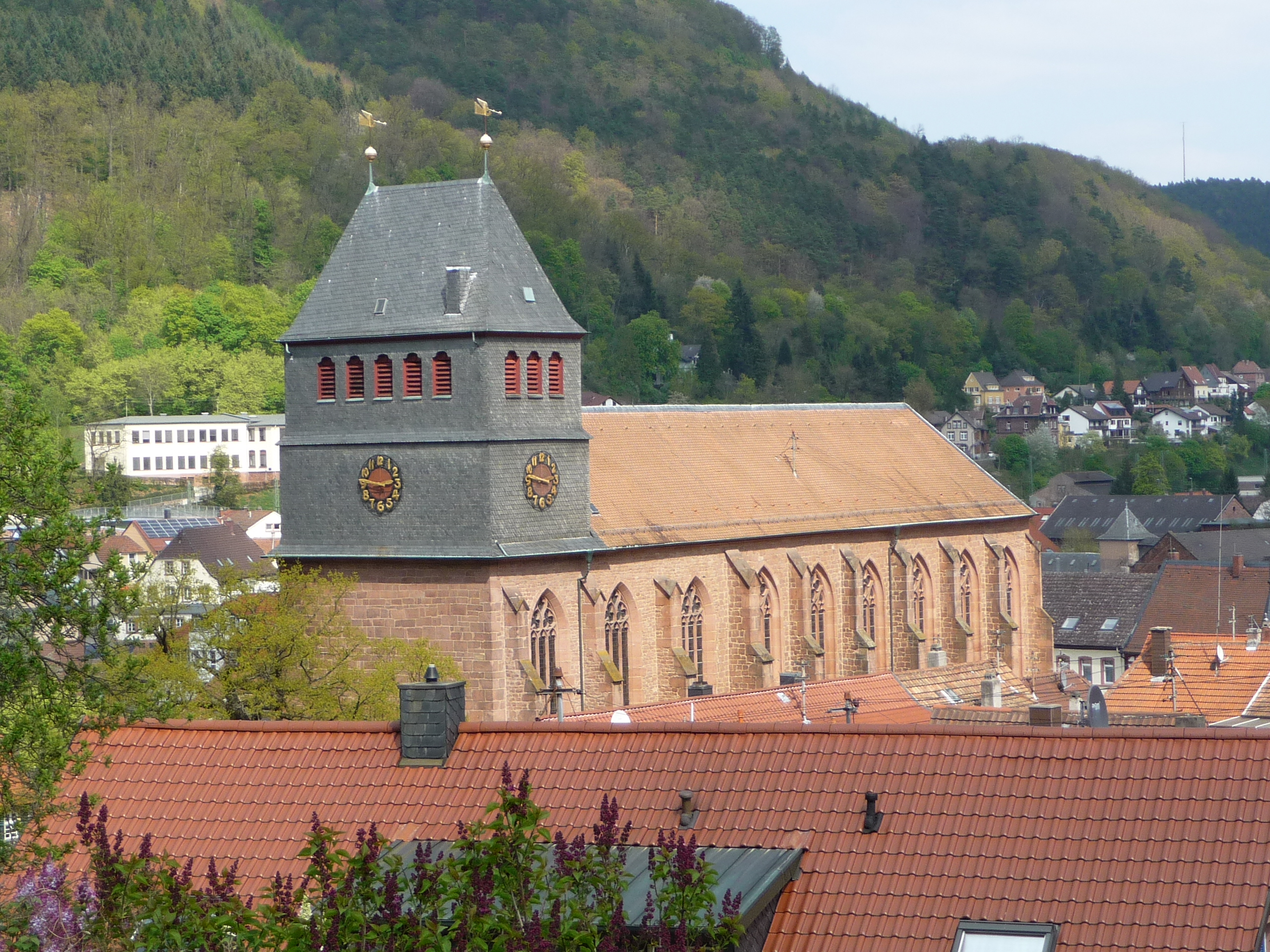 Churches in Lambrecht (Pfalz)